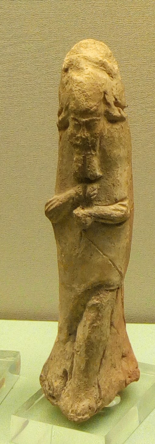 Apkallu, fish-cloaked sage, figure originally buried under a house in order to protect it against evils. Assyria, from Nimrud or Nineveh. ME 90999.